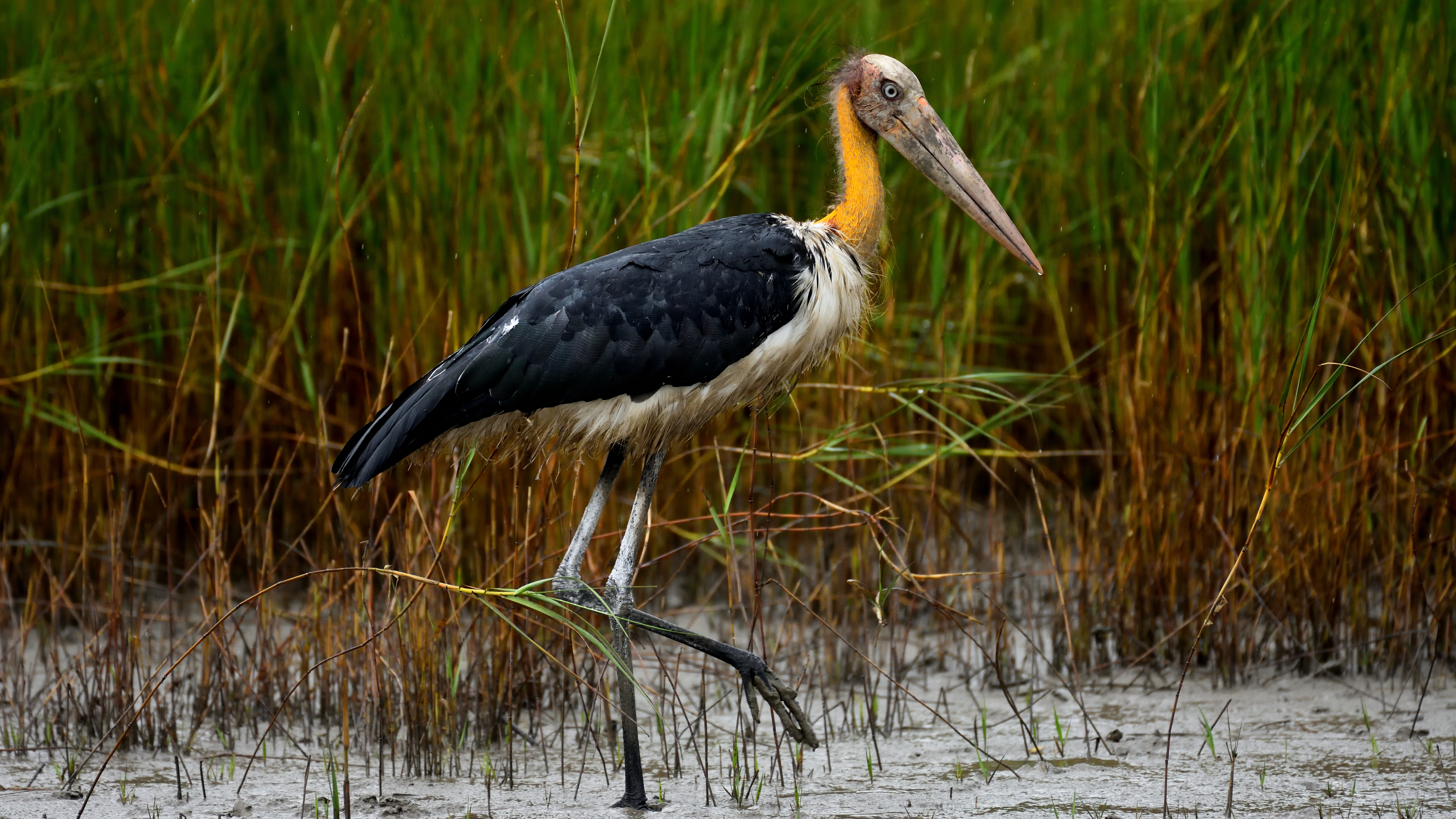 Lesser adjutant, In mangrove habitat of Sunderban.